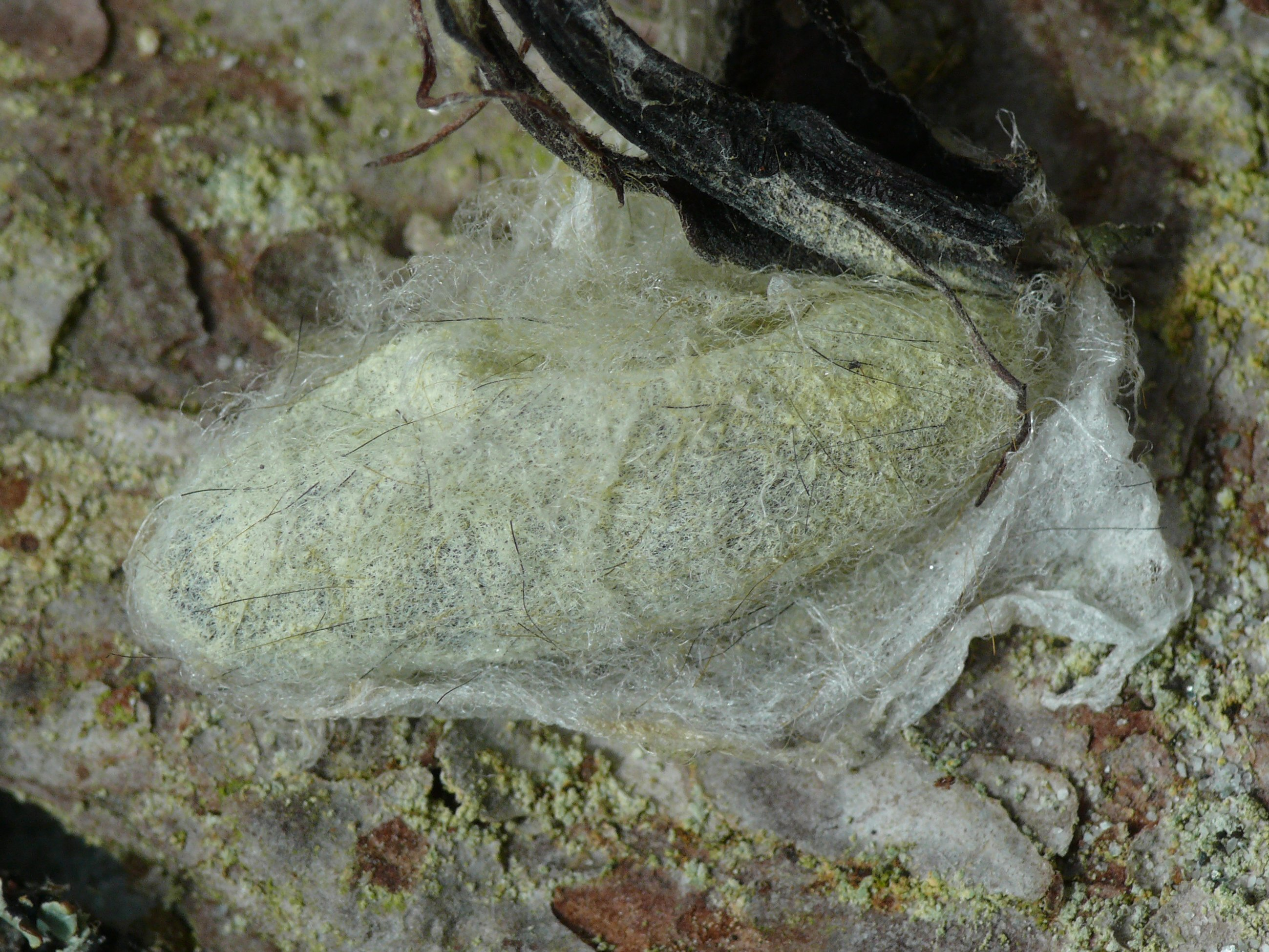 Pupa of Lackey moth (Malacosoma neustria), Germany, Bavaria, Landkreis Ebersberg